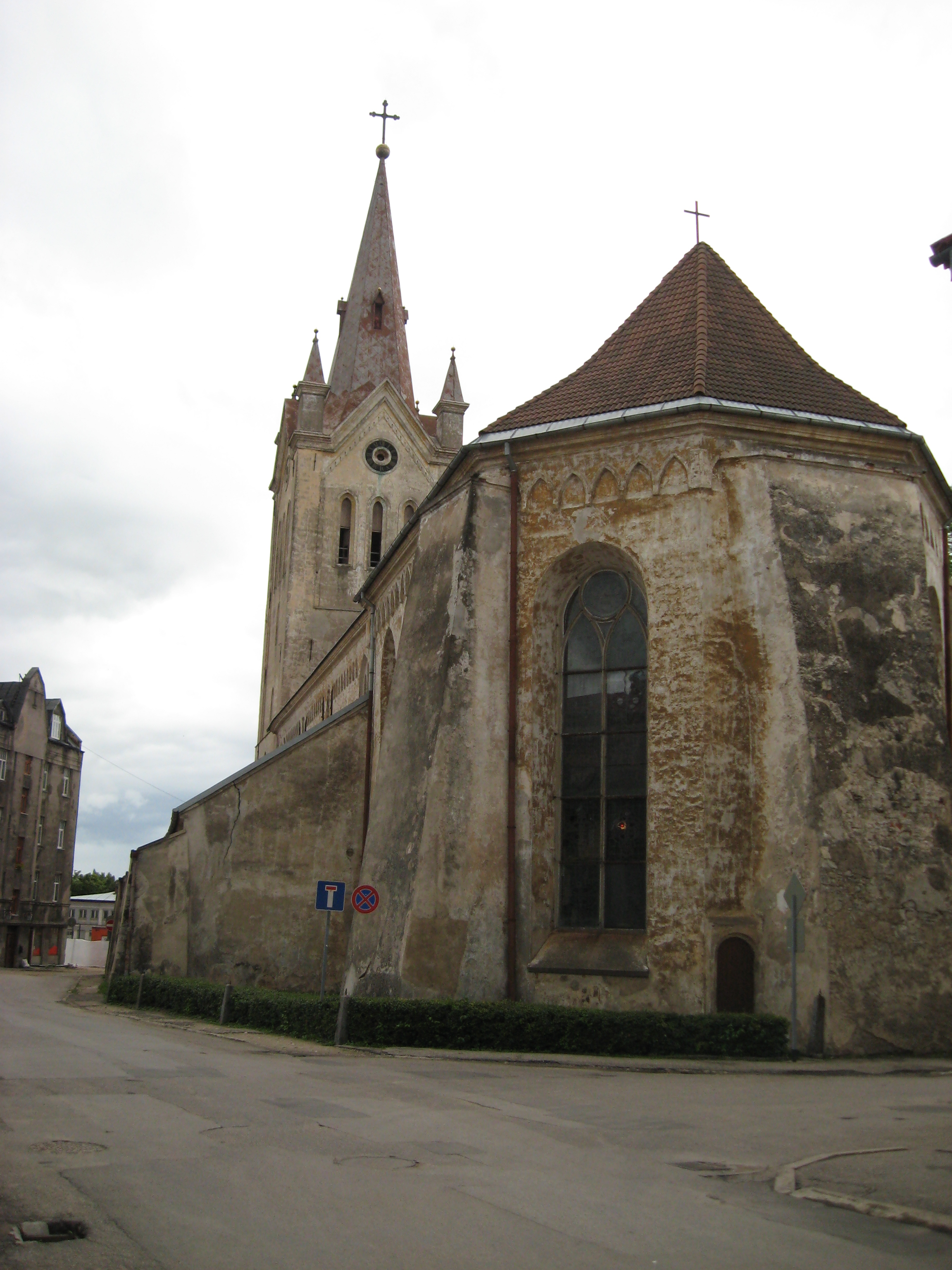 St. John's Church (built 1281-1284) in Cēsis.